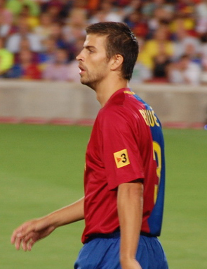 A photo of Gerard Pique, FC Barcelona player, during Joan Gamper trophy 2008